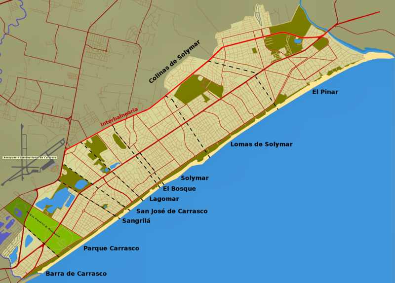 Map of Ciudad de la Costa, of Canelones Department, Uruguay, showing subdivisions.